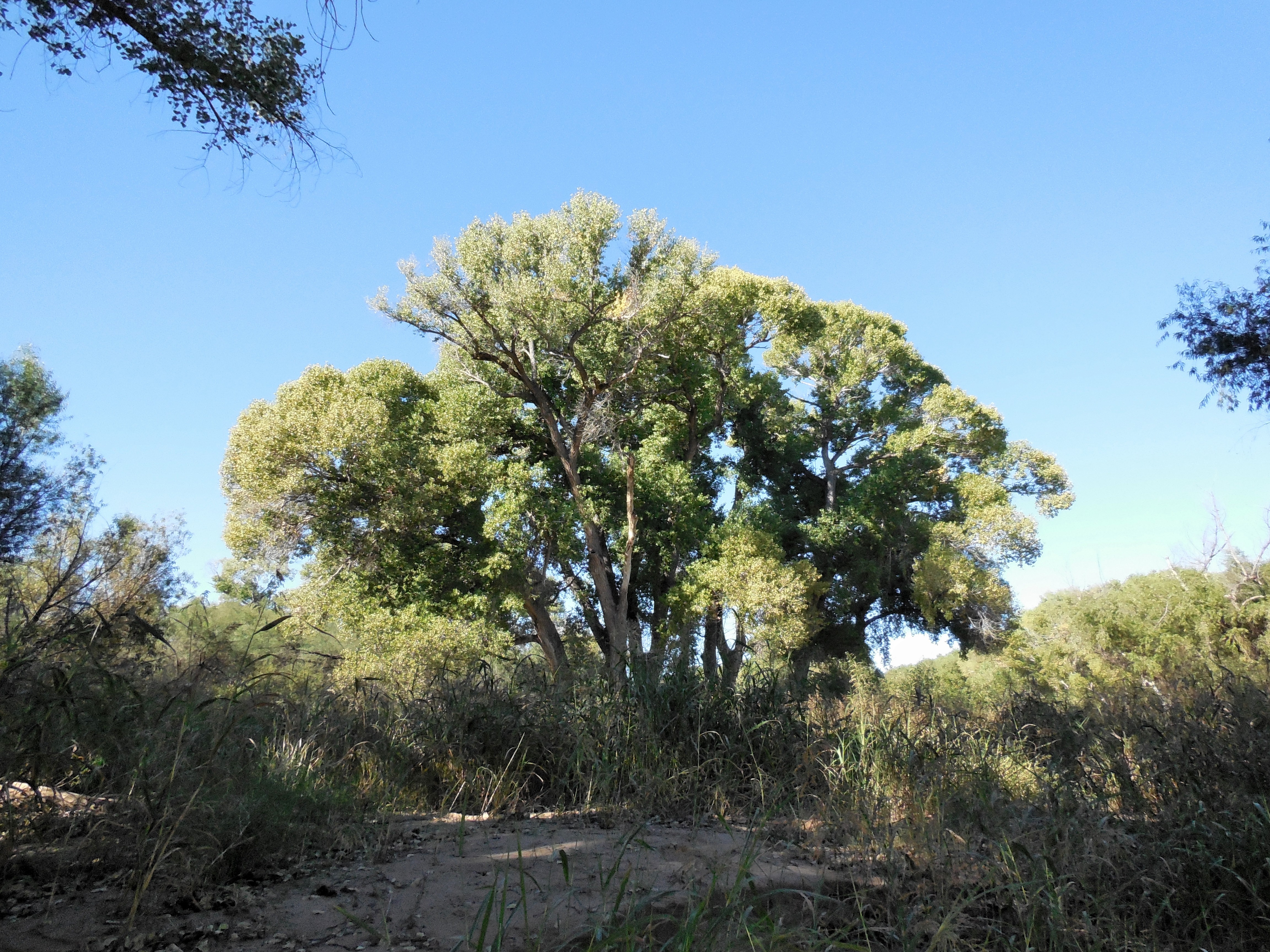 Huge Cottonwood - Buteo plagiatus Nestsite nearby